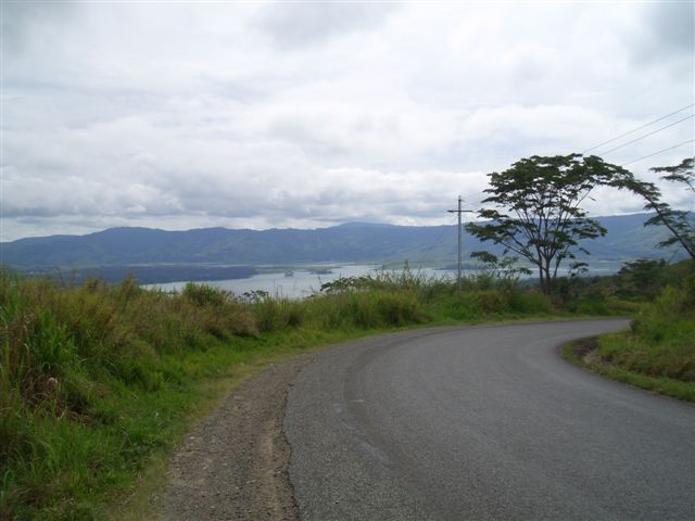 Taken by Peter Mark Smith Dec 31st 2006. Yonki Dam viewed from the Highlands Highway, Papua New Guinea.